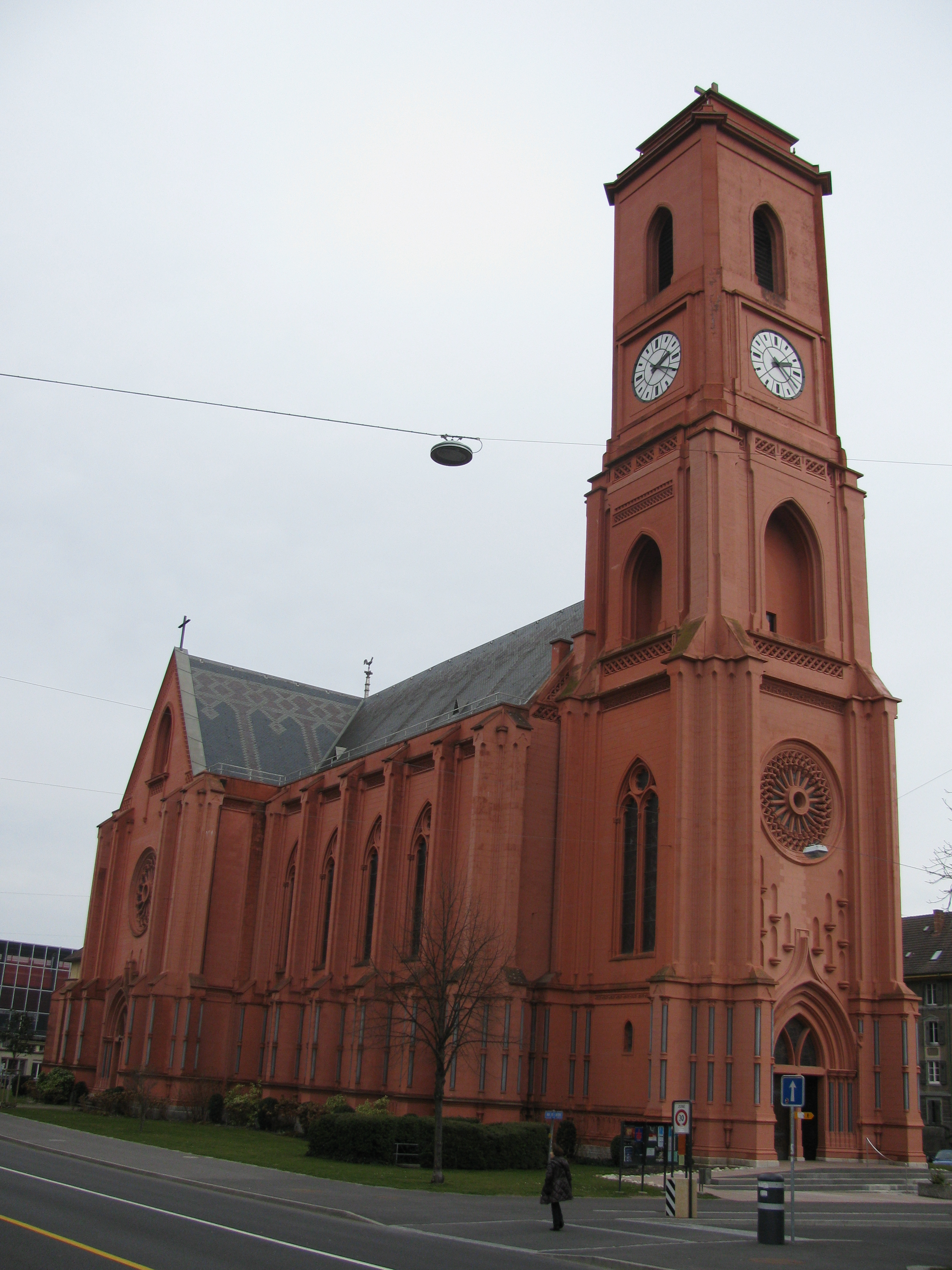 Basilique Notre-Dame at Neuchâtel, Switzerland